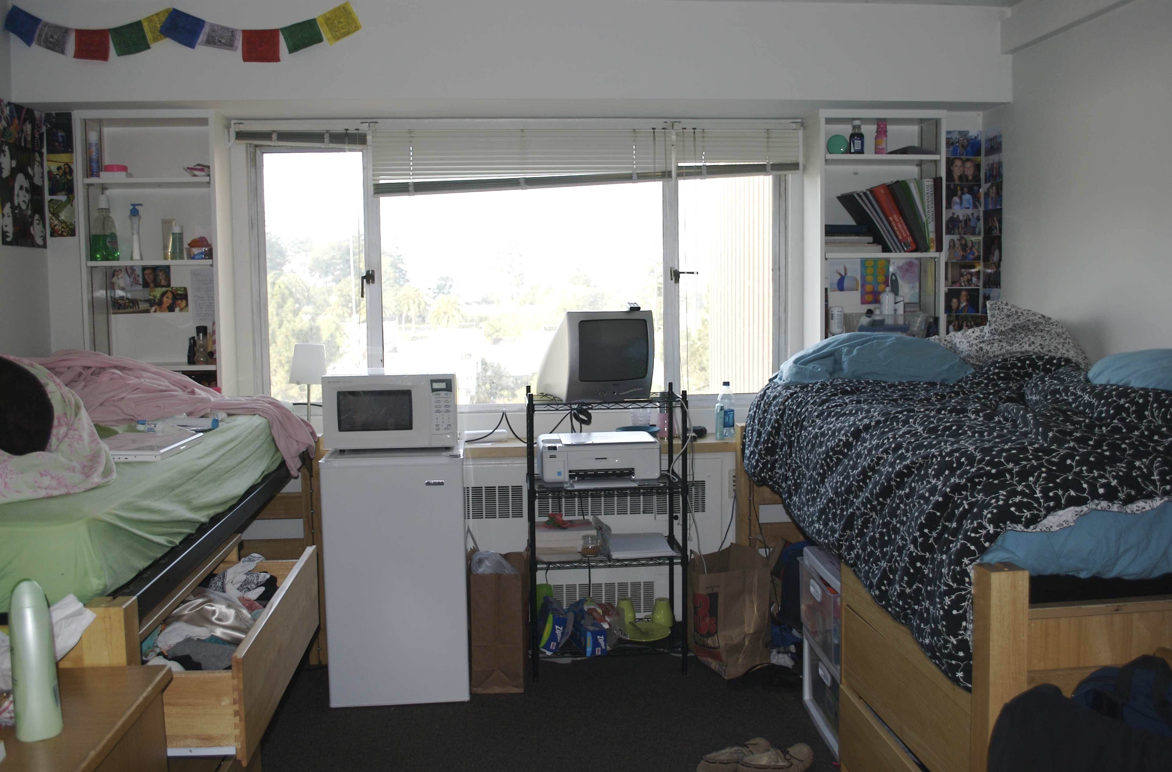 Gillson Dorm Room